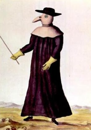 Beak Doctor costume 1720